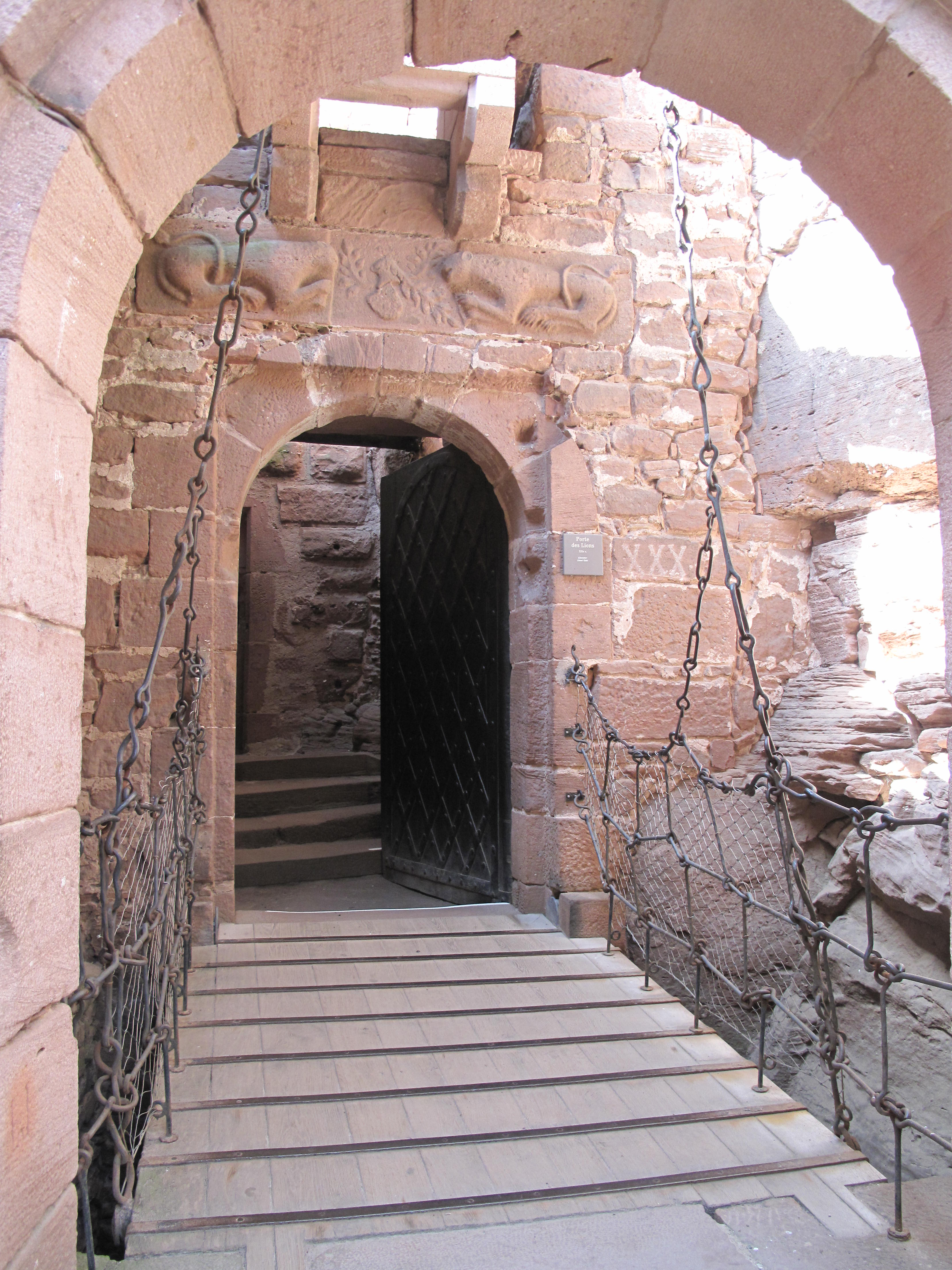 The porte des Lions (=door of the lions) of the castle of Haut-Koenigsbourg (Bas-Rhin, France).